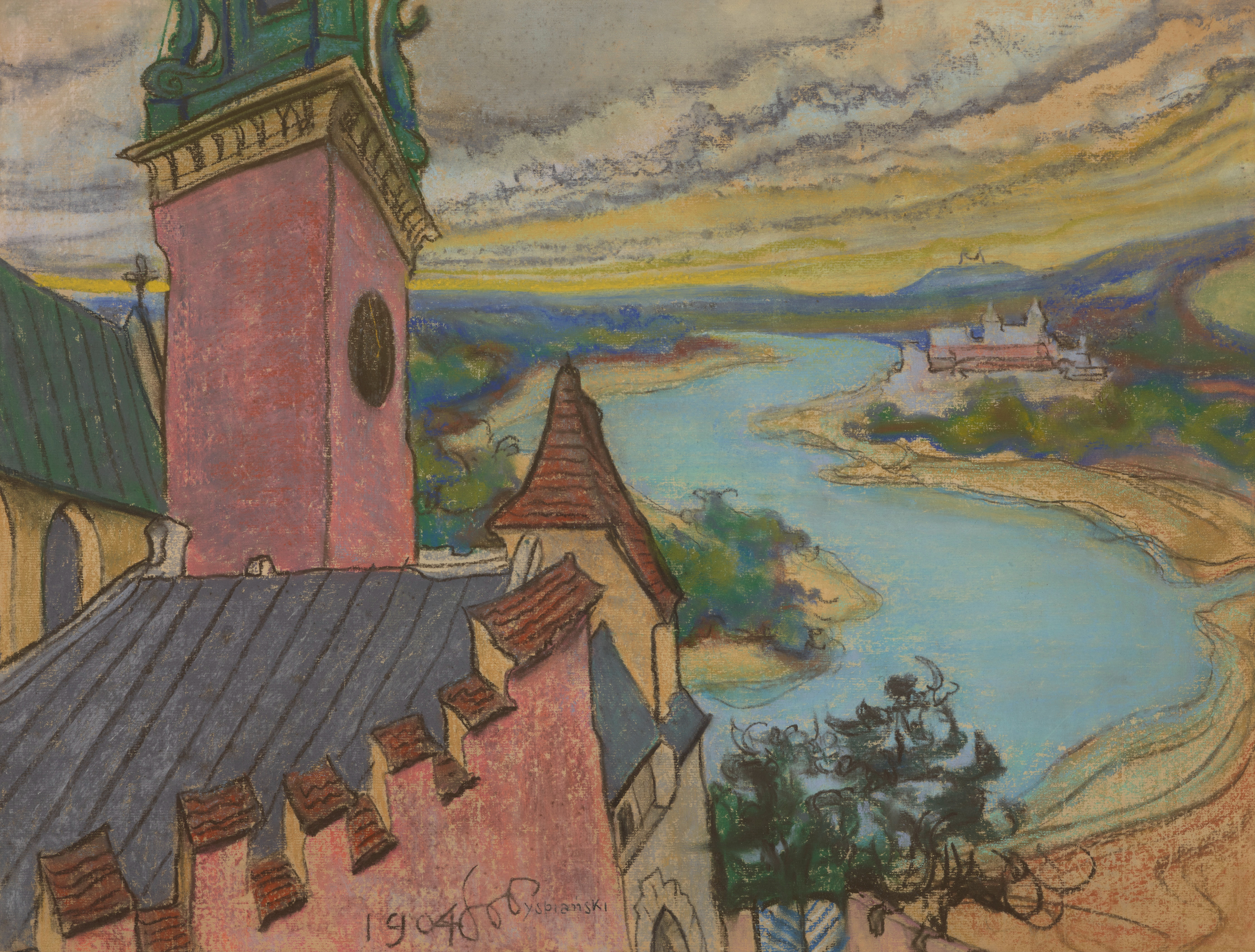 Zakola Wisły, Pastel. 46 x 61,2 cm, jazak collection by Stanisław Wyspiański a Polish playwright, painter and poet, as well as interior and furniture designer.